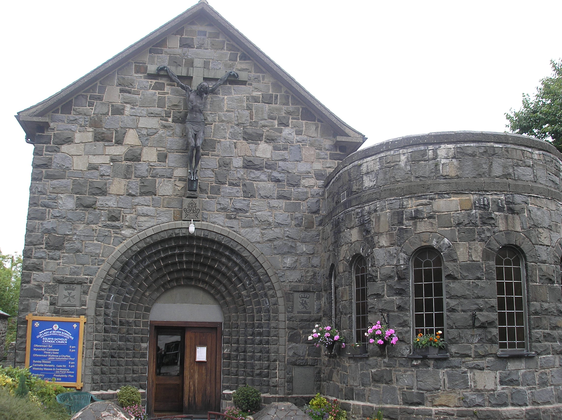 Exterior photo of Our Lady of the Seven Sorrows Church, Dolgellau